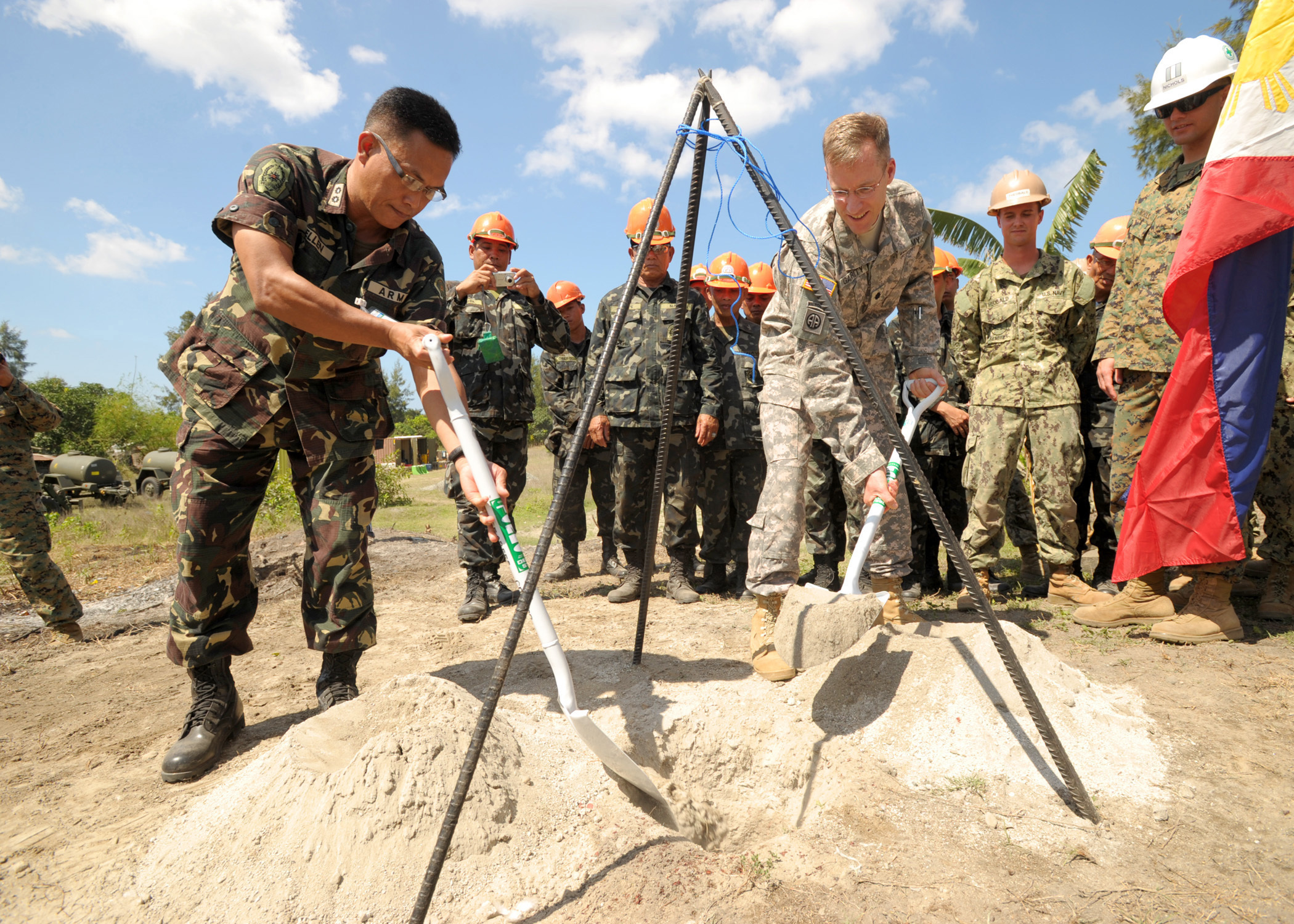 Philippine army Lt. Col. Henry Bellan, left, and U.S. Army Lt. Col. John Garrity, the deputy commanders of Joint Civil Military Operations Task Force, bury a time capsule containing the construction plans for a footbridge during a groundbreaking ceremony March 18, 2013, in San Narciso, Philippines. The job was one of eight engineering civic action projects conducted by U.S. and Philippine service members in support of exercise Balikatan 2013. Balikatan is an annual bilateral training exercise designed to increase interoperability between the Armed Forces of the Philippines and the U.S. military when responding to future natural disasters.